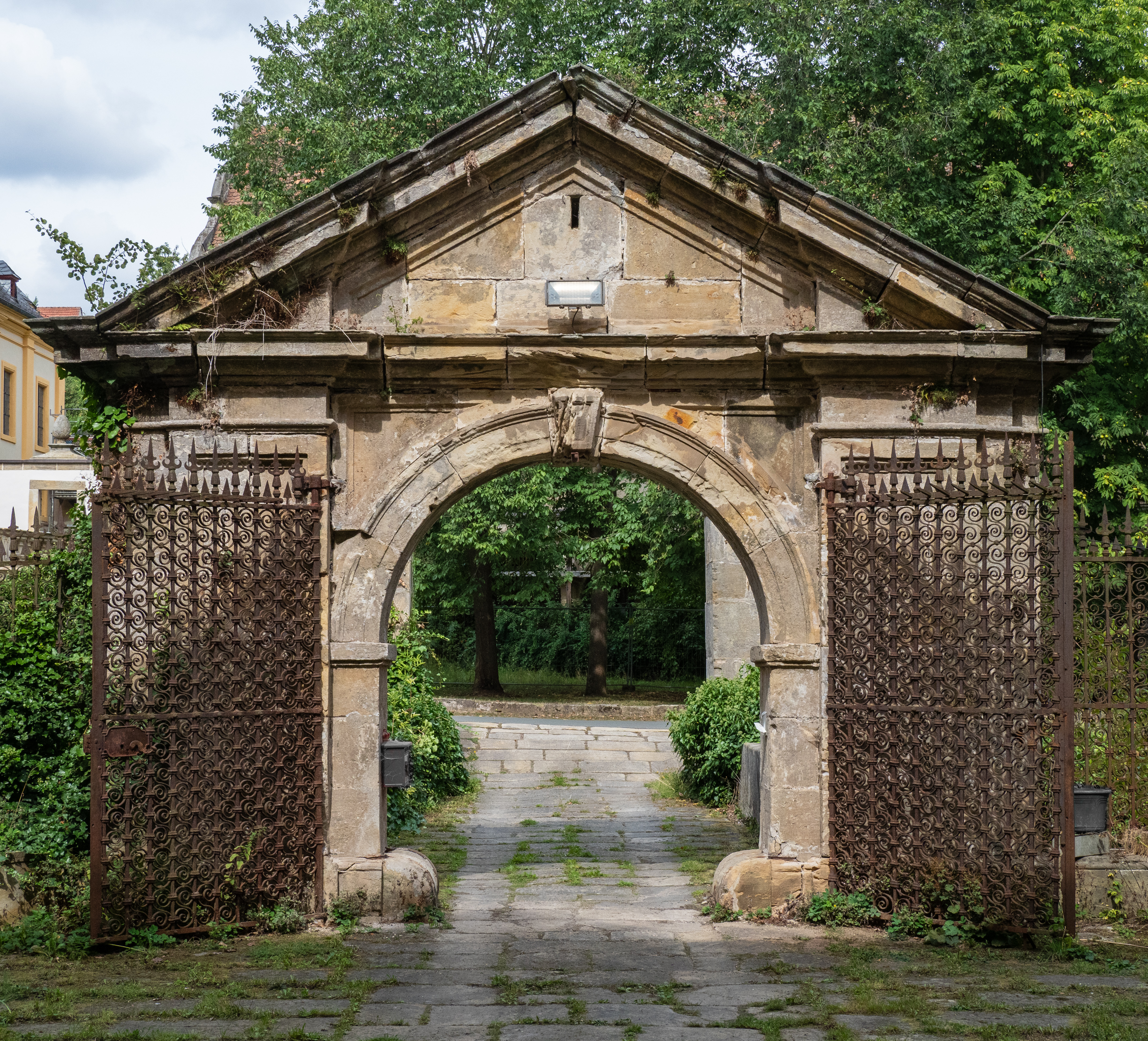 Gate of Gereuth Castle